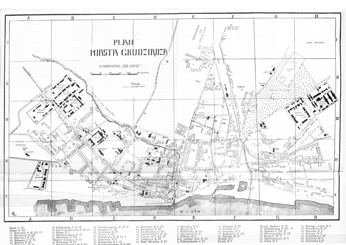 Plan of city Grudziądz, 1913.